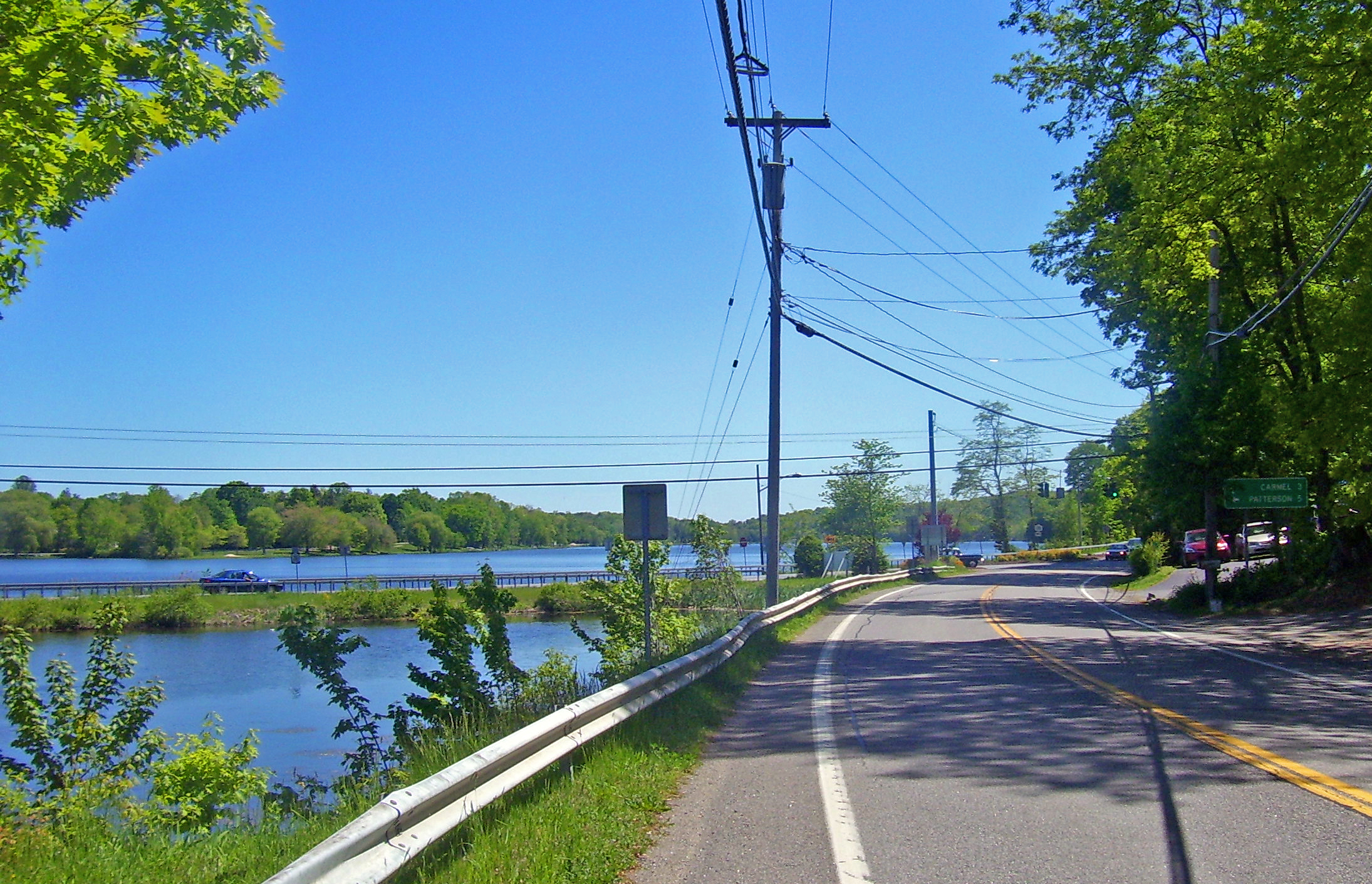 Junction of NY 52 and NY 311, at Lake Carmel, NY, USA seen from NY 52 west of intersection